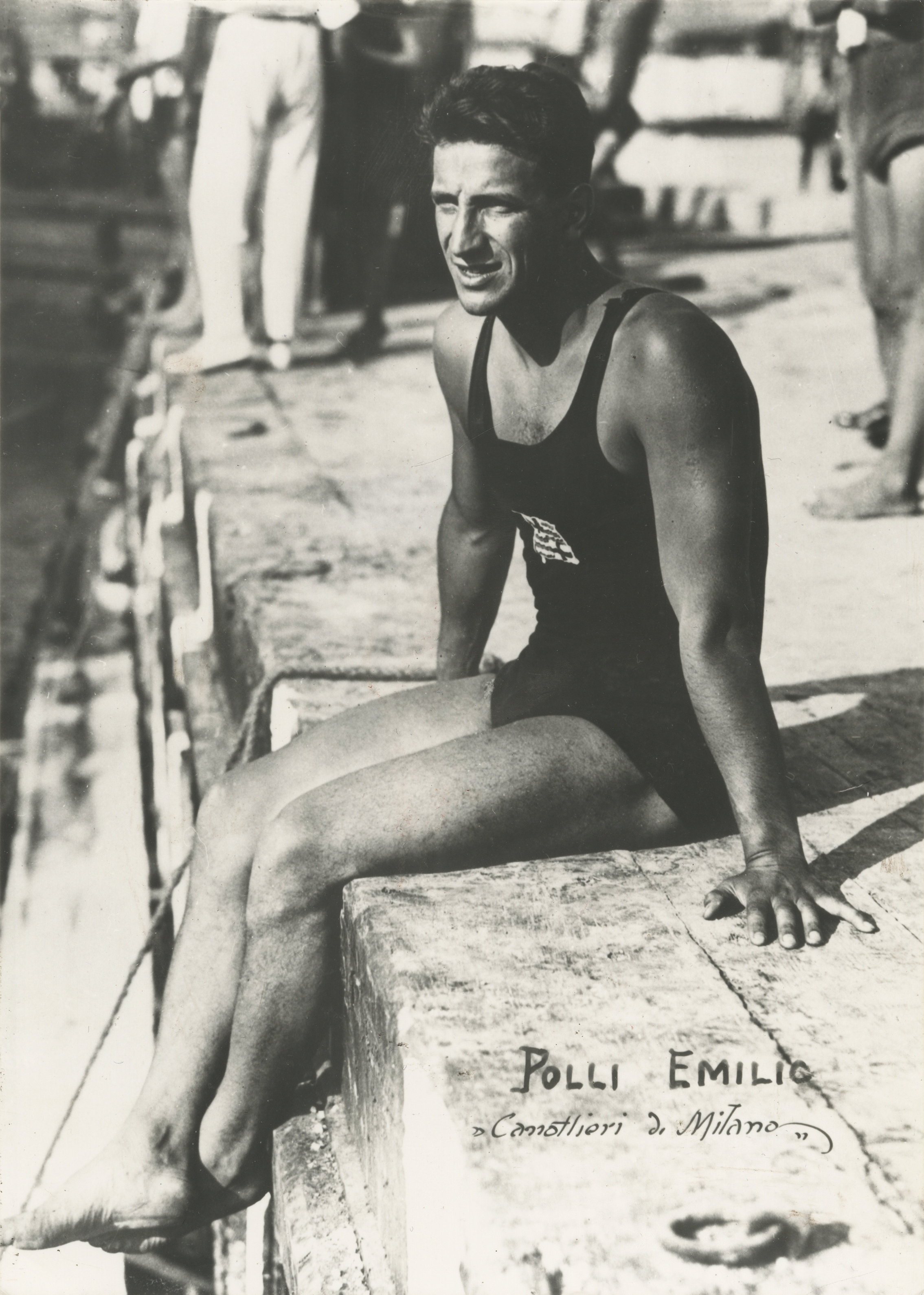 Emilio Biotti Olympic swimmer italian Champion